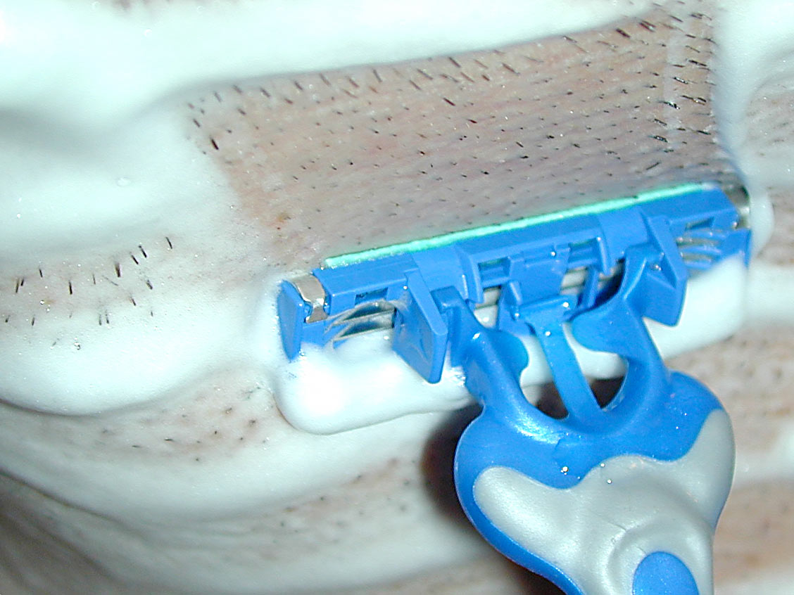 A photo I took of a razor shaving stubble.